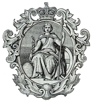 Britannia, detail from a 1931 five pound note: Bank of England, B.G. Catterns, Five Pounds, 28 April 1931, 082/J 14752